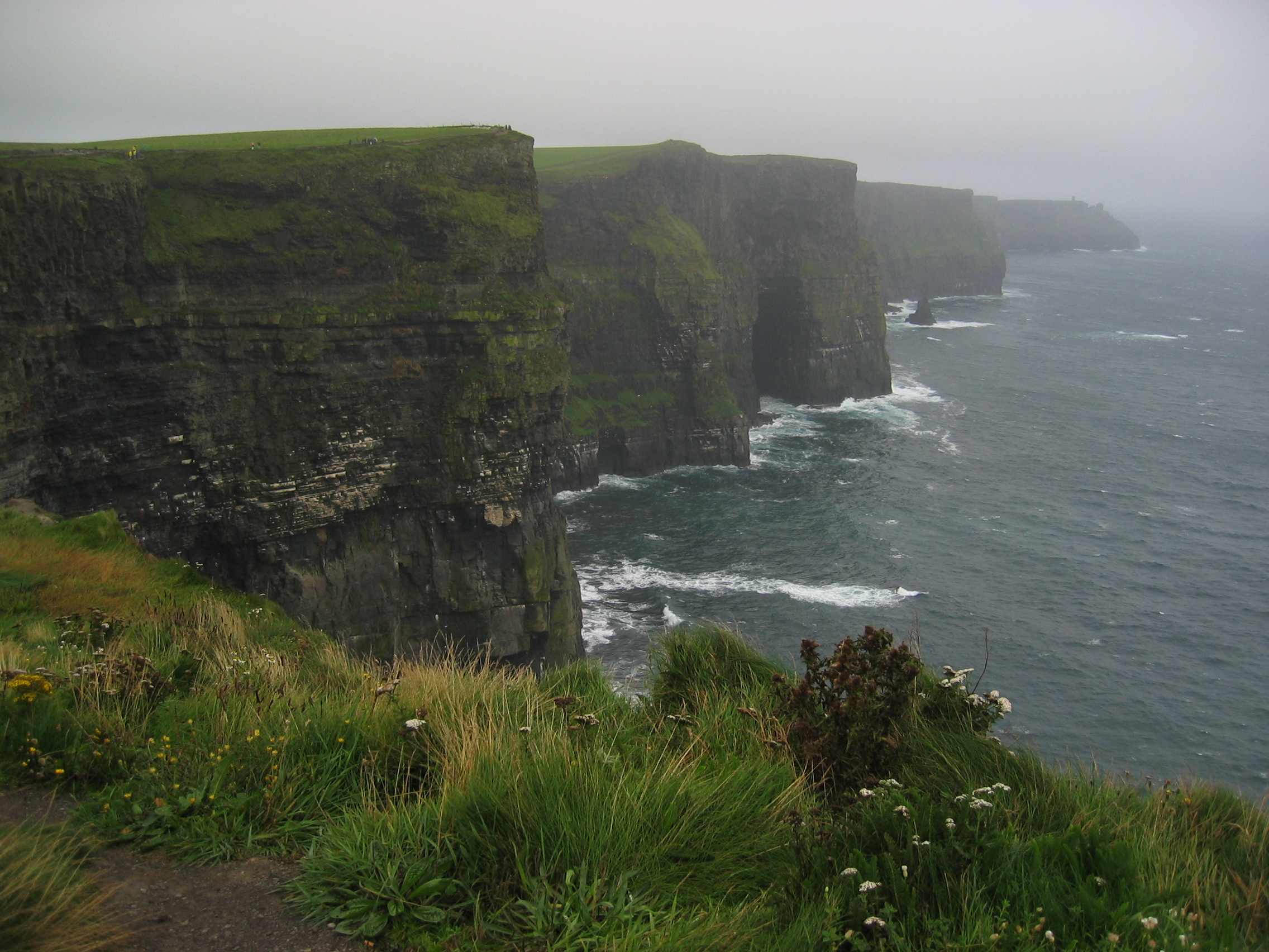 Personal Photography, August 2004